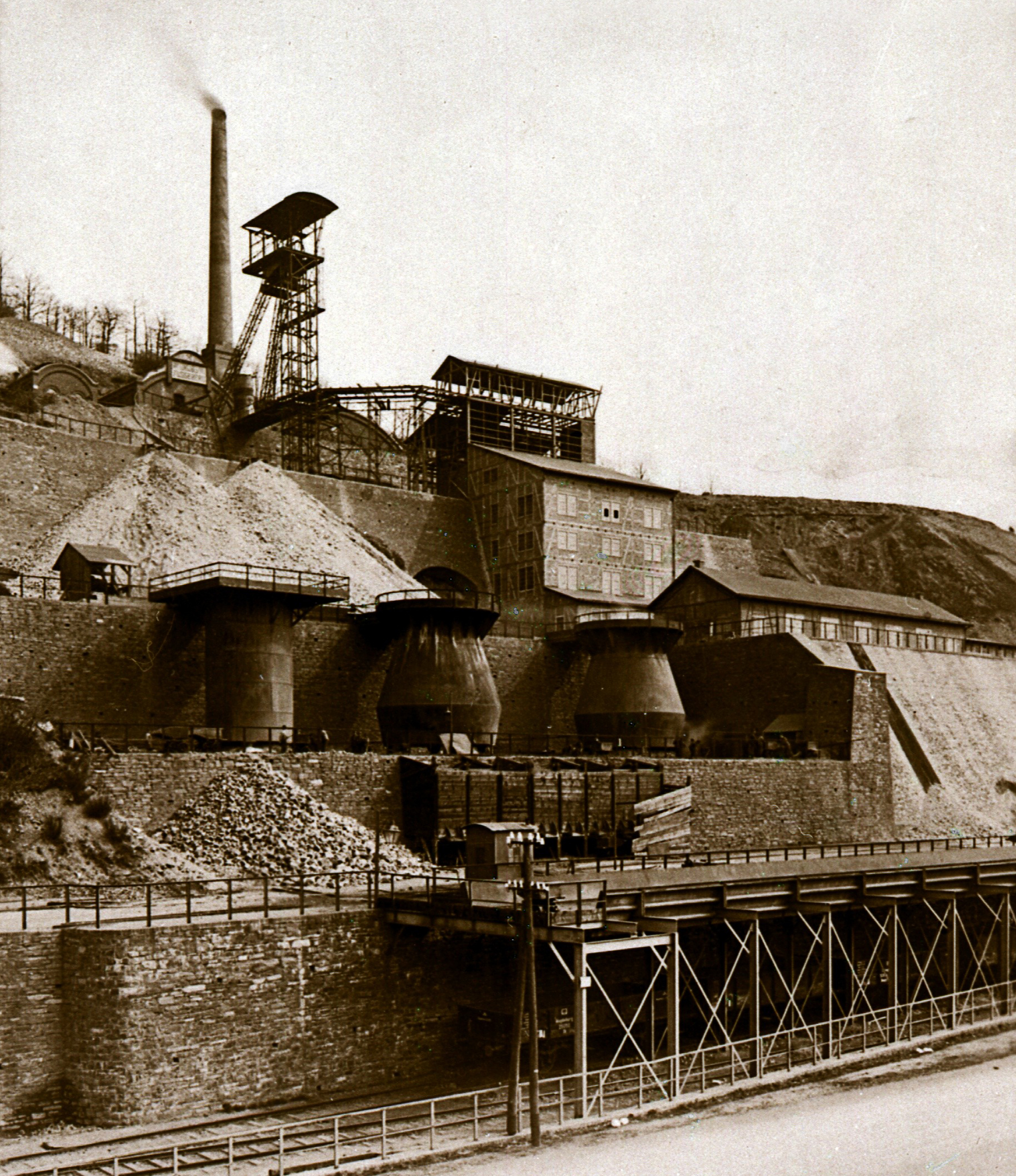 Füsseberg mine, 1913.